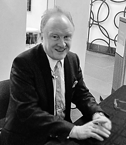 Pere Asher, Phoenix, AZ, Oct. 7, 2012